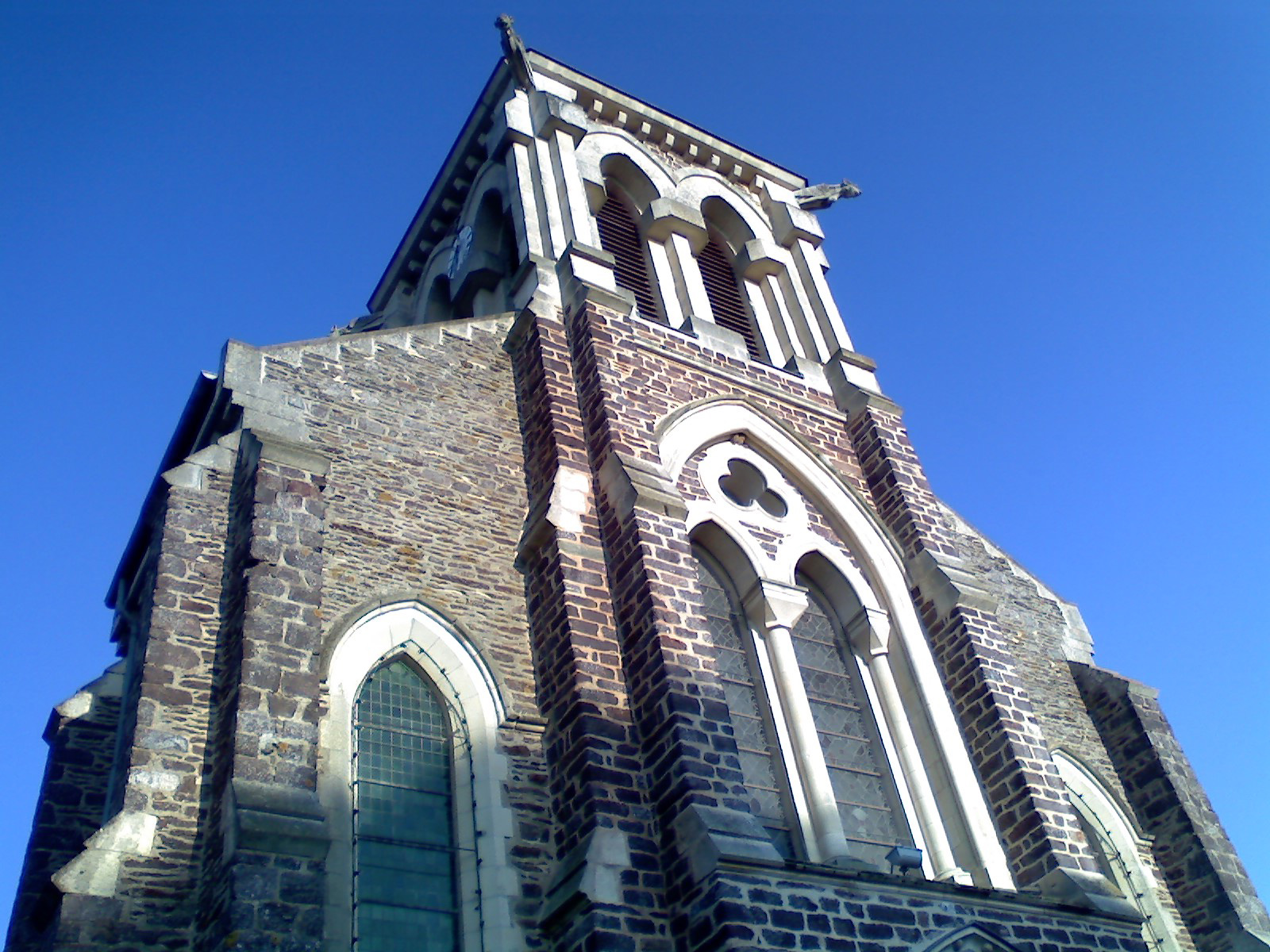 The Church of Talensac in Ille-et-Vilaine (35) - Brittany - France